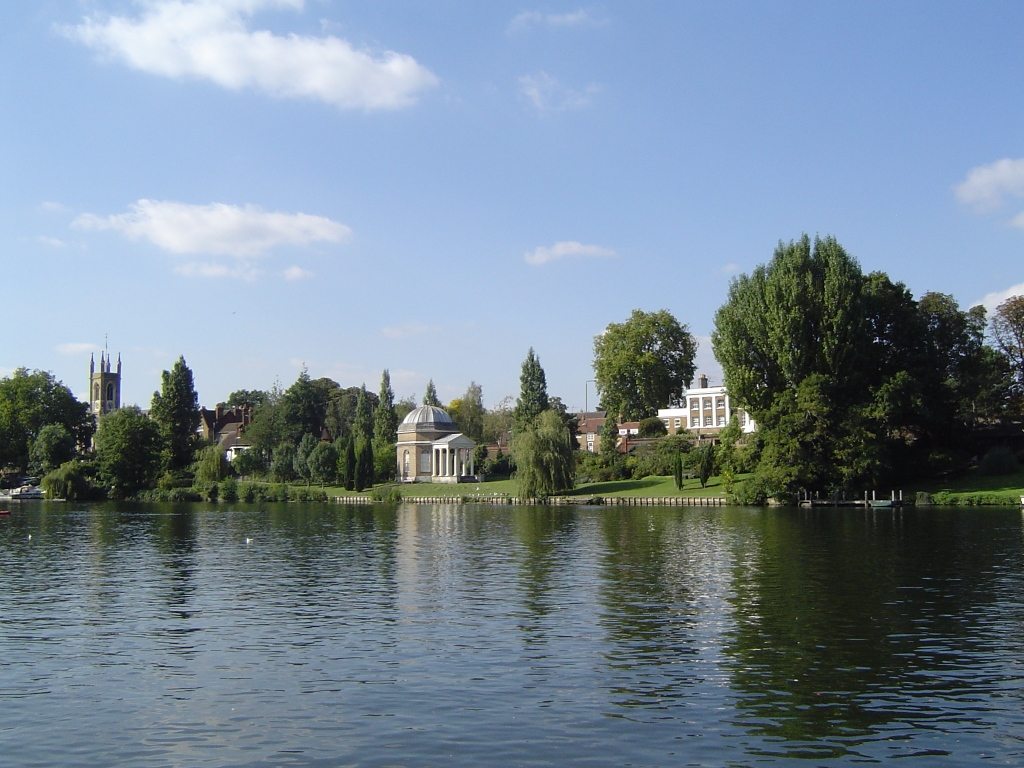 Hampton on the River Thames with Hampton Church, Shakespeare's Temple and Garrick's Villa (copy from own work on English wiki)